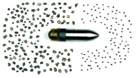 fragmentation pattern of the XM1018 grenade of the XM29 OICW